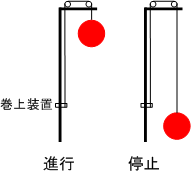 illustration of ball signal used early day of railway